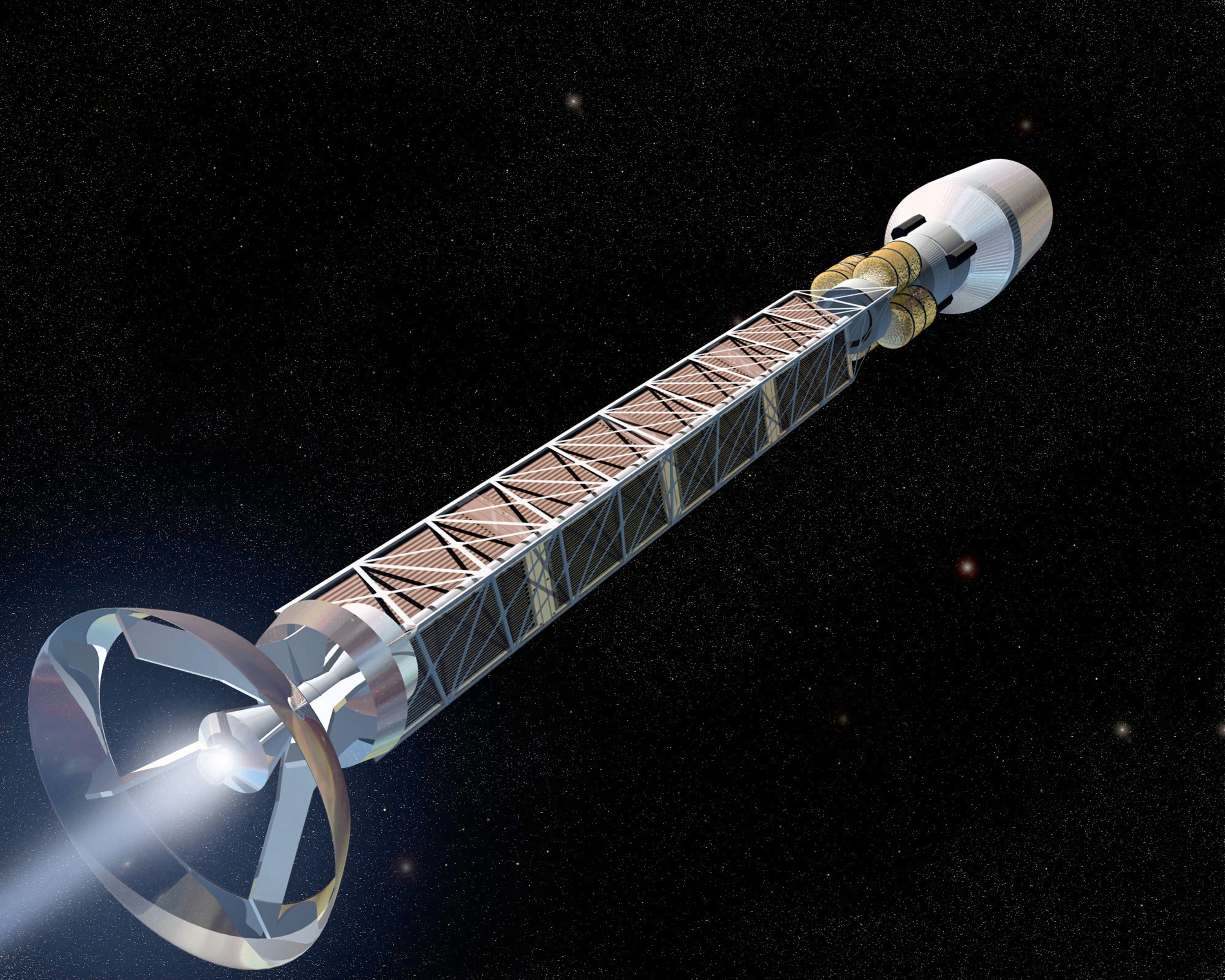 This is an artist's rendition of an antimatter propulsion system. Matter - antimatter arnihilation offers the highest possible physical energy density of any known reaction substance.